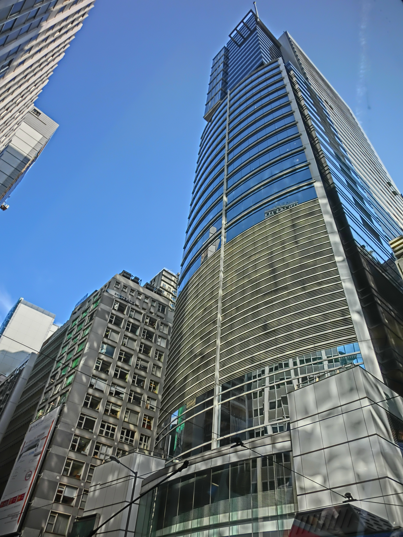 中環, Des Voeux Road Central, Hong Kong